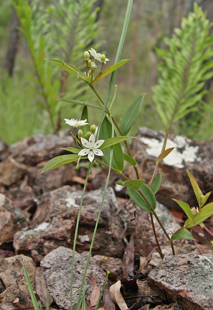 Schelhammera multiflora, Atherton Tablelands, QLD, Australia.